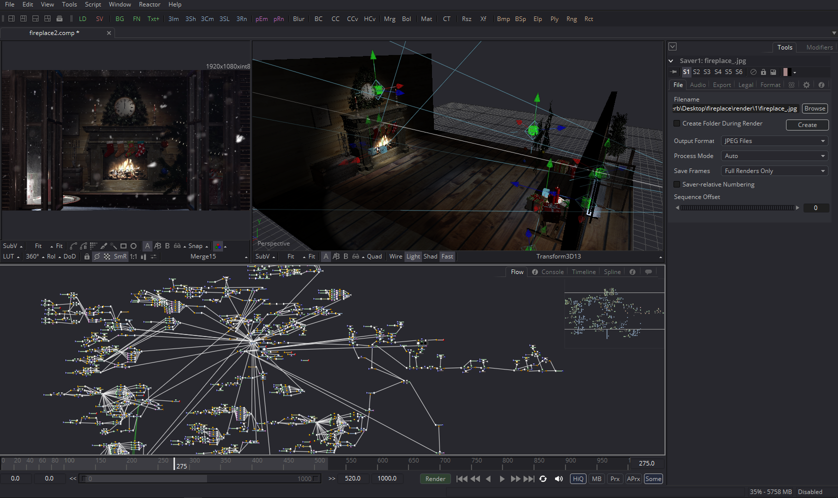 BMFusion free - 3d composition screenshot